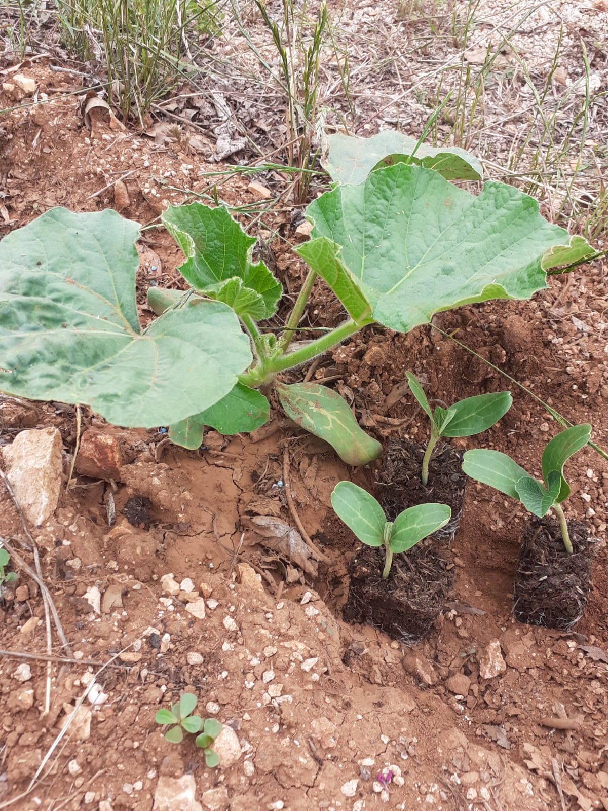 This picture represents a plant and some seedlings of Legenaria longhissima.